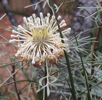 Isopogon dawsoni Glenbrook Native Plant Reserve Sept 2004 Photo Cas Liber